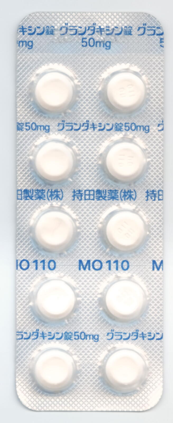 Grandaxin (tofisopam) 50 mg tablets